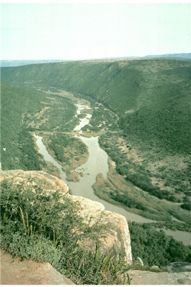 The Great Fish river in the Eastern Cape Province of South Africa, seen from Double Drift Game Reserve.